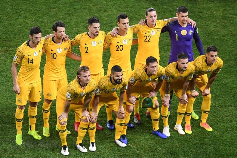 United Arab Emirates-Australia, 2019 AFC Asian Cup quarter-finals